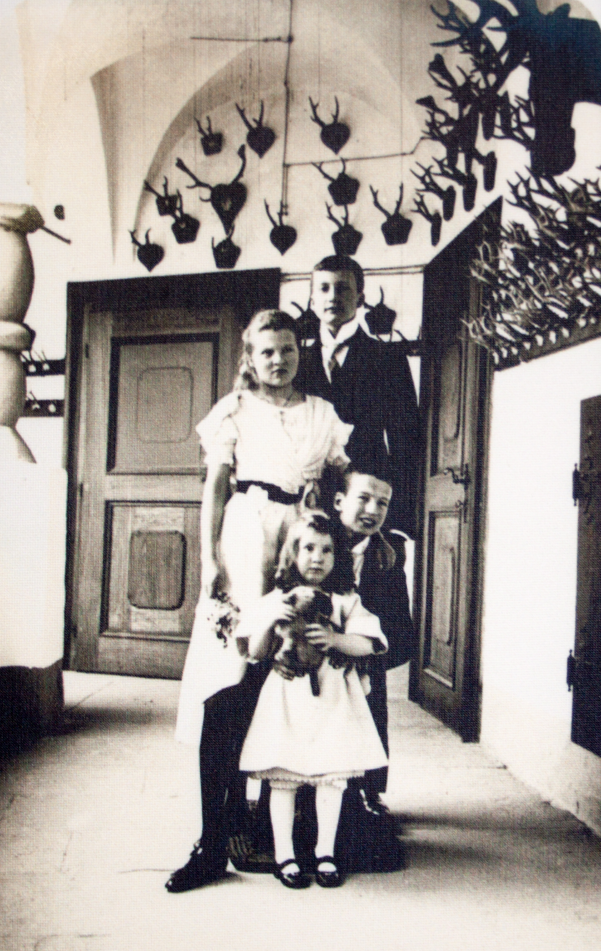 Photo of the children of Archduke Joseph in Alcsút